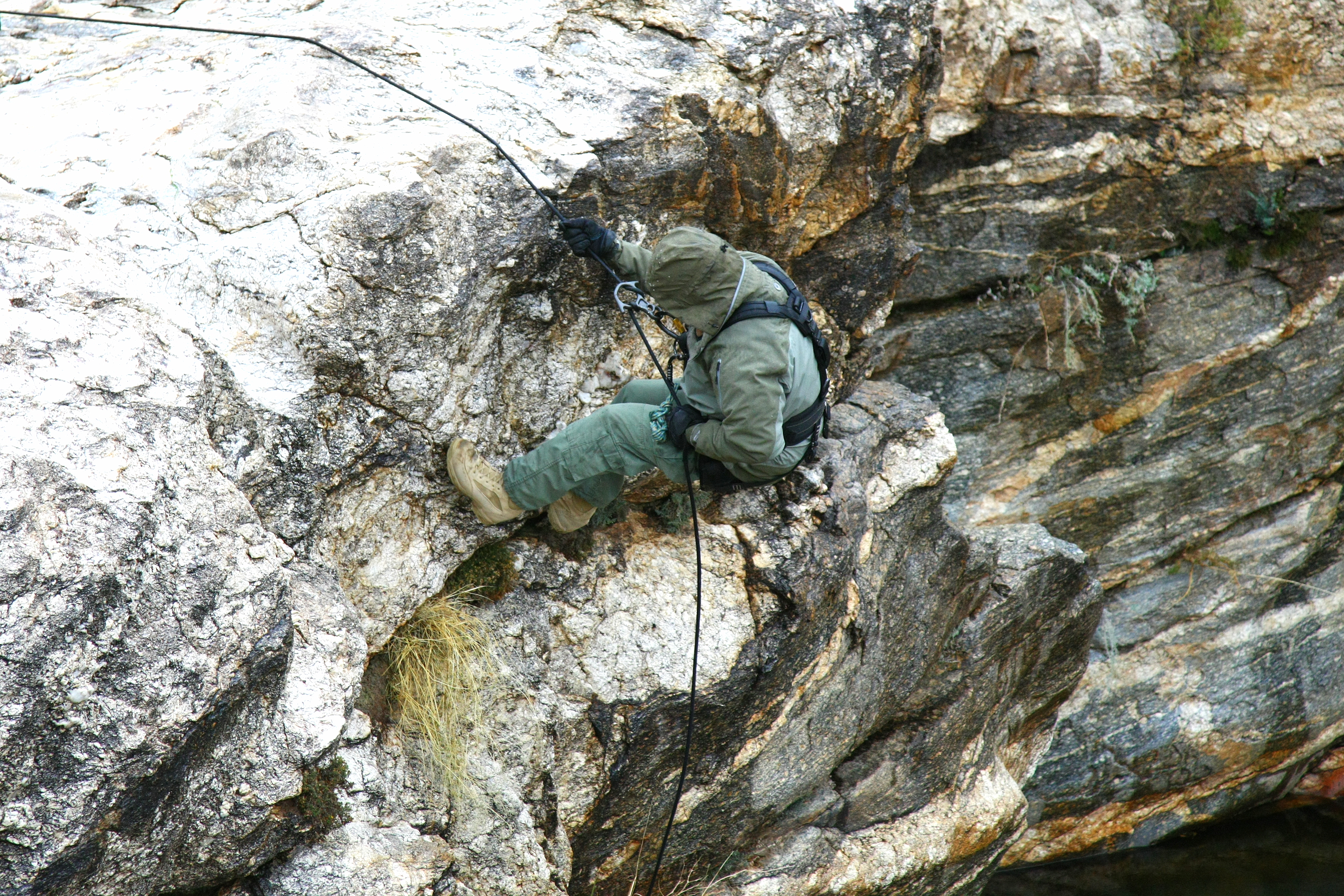 Rapelling on Mt Lemmon. Members of the Border Patrol Search, Trauma and Rescue unit--BORSTAR--train in all aspects of Search and Rescue. BORSTAR was formed in 1998 to help reduce the number of deaths in Arizona's unforgiving deserts.